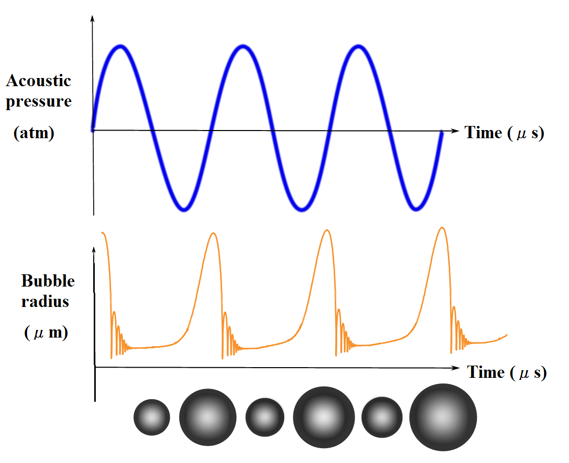 Oscillating bubble radius results from pressure anti-node motion.